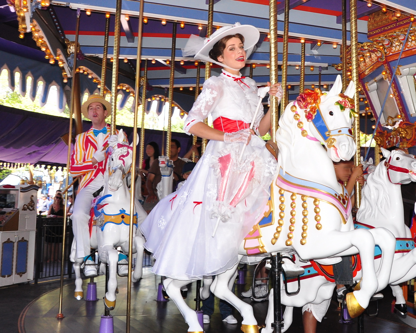 Disney-Grandpa snapped the original, Titled: Mary Poppins and Bert .. My miracle shot !! LOL Explored # 146- There is a funny story behind this shot !! I was coming from Big Thunder Ranch when I turned the corner and saw Mary Poppins on the carrousel !! I had never seen her on it before and couldn't remember ever seeing a picture of her there ! I was a good 40 yards from her when I began my mad dash thru the crowds. I I'm sure everyone thought I was NUTS ! All I had time for was to hope I had the right lens on and all the right settings. I wasn't sure what settings I had, so I set it on auto, made sure the flash was charged and pushed thru the crowd to shoot this ONE photo. Luckily Mary saw me and gave me a nice look ! The carrousel stopped on the other side so I didn't get a second chance ! I was so happy and lucky that this one turned out well !! It has been modified to obscure brands and the faces of guests, for upload to Wikimedia Commons, to illustrate the King Arthur Carrousel article